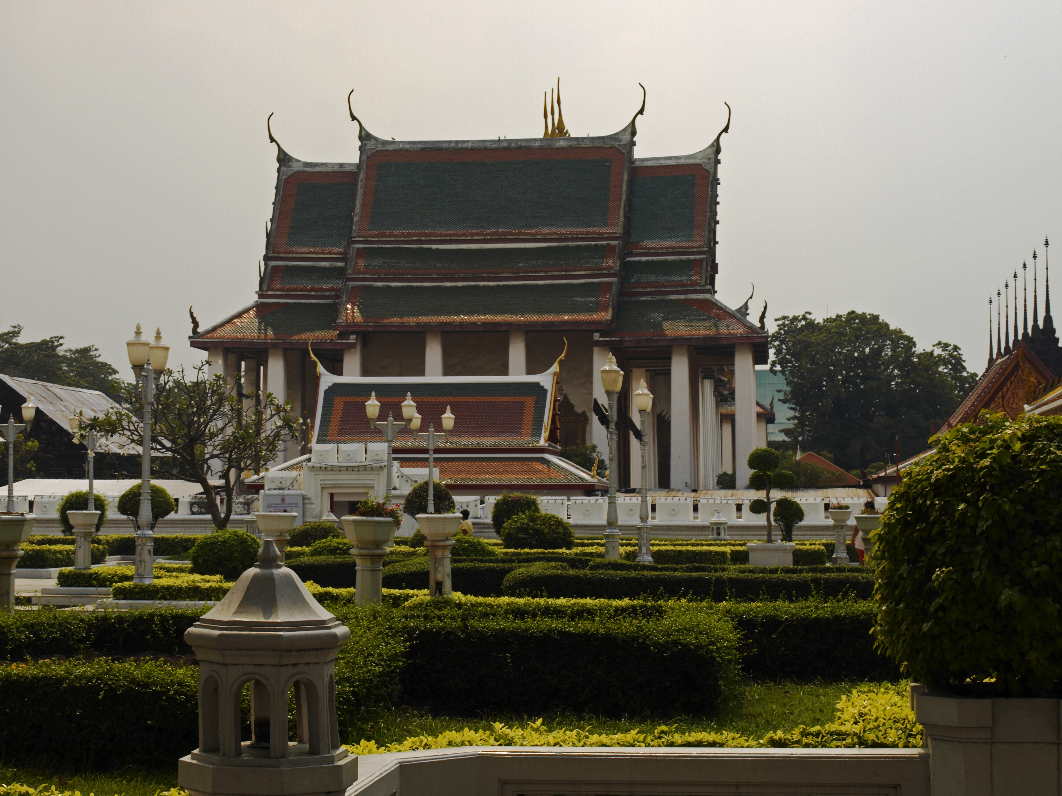 Viharn of Wat Ratchanadda, Bangkok